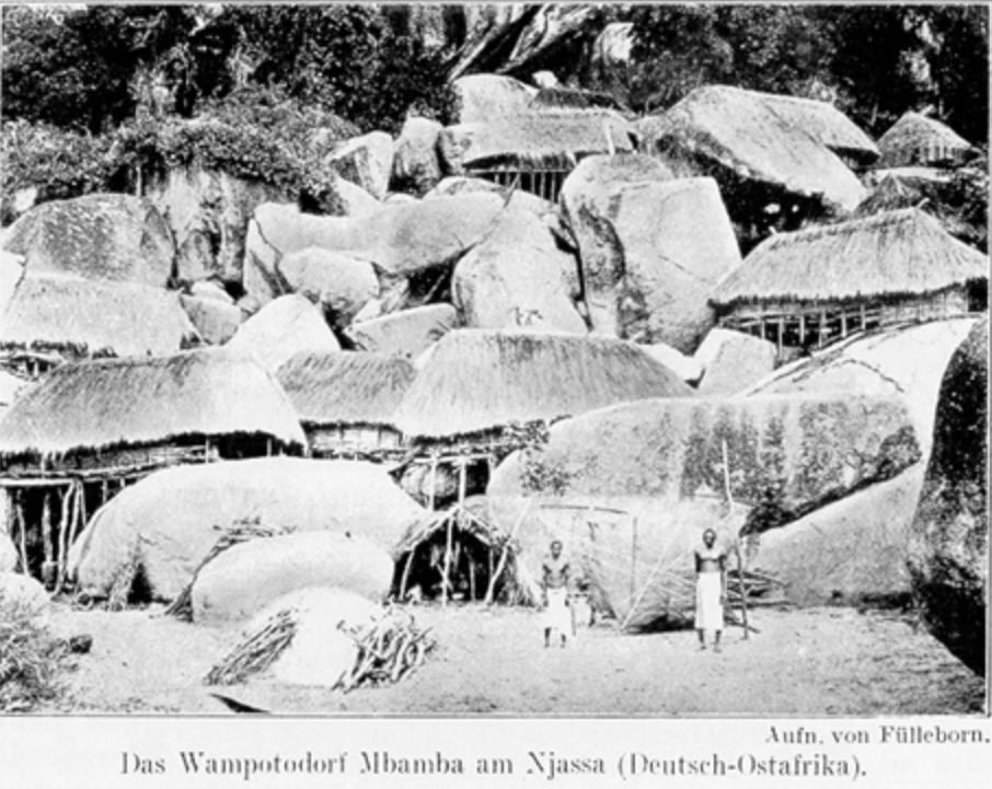 Image of Mbamba village (today Mbamba Bay, Nyasa district, Ruvuma Region, Tanzania), taken before 1900 by Friedrich Fülleborn during the Nyassa and uvuma expedition Kiswahili: Picha ya kijiji cha Mbamba, ilipigwa kabla ya mwaka 1900 na Friedrich Fülleborn (daktari ya serikali ya Kijerumani) wakati wa safari yake kwenye milima ya Ziwa Nyasa